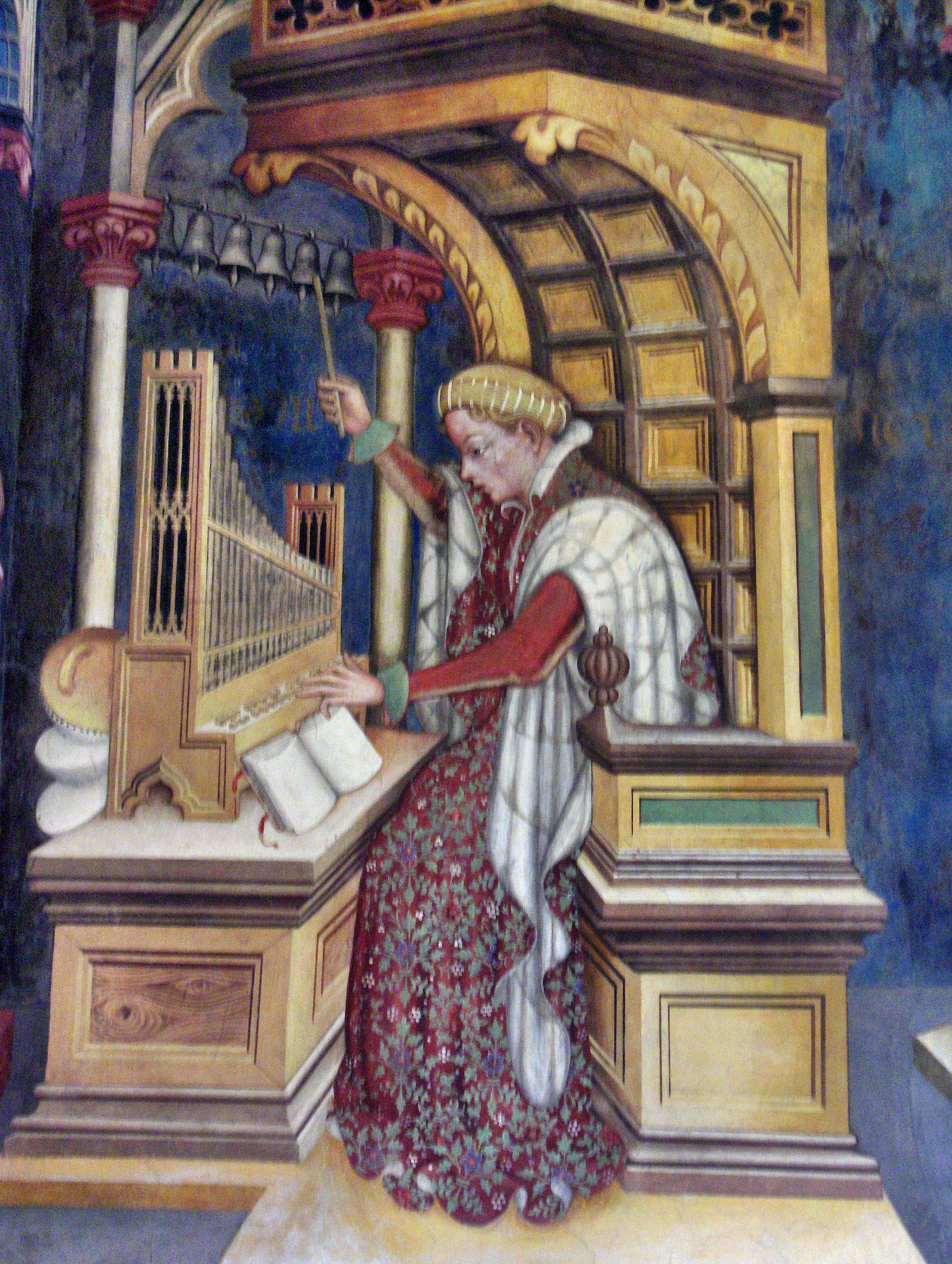 "Music : Playing the organ". Fresco by Gentile da Fabriano, 1411 (?). Hall of the Liberal Arts and of the Planets, Trinci palace, Foligno, Italy